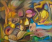 The photograph of this painting by J. Bernal, my father, was taken by me. It is part of my archived documents. It also appears in his Artist Works Catalogue of Artnet. I, Lucrecia Bernal Schneider, took the photograph of this painting by José Bernal -my father- at his art studio a few years ago to compile an archive of his artworks. The painting is in his personal collection and it may also be seen in his Artnet Artist Works Catalogue (AWC): where I sent it to Artnet's AWC Account Executive to upload on to his catalogue.